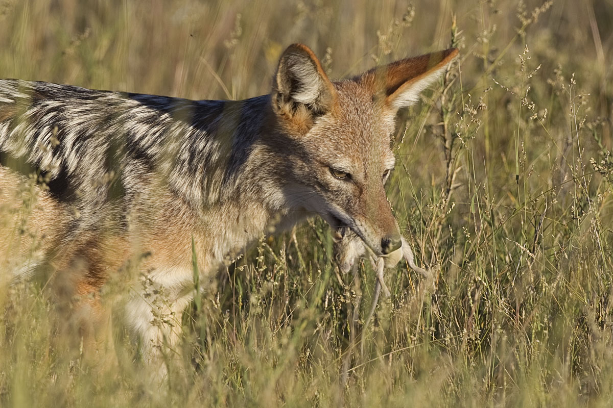 Black-backed jackal with a rodent it has just hunted, Etosha